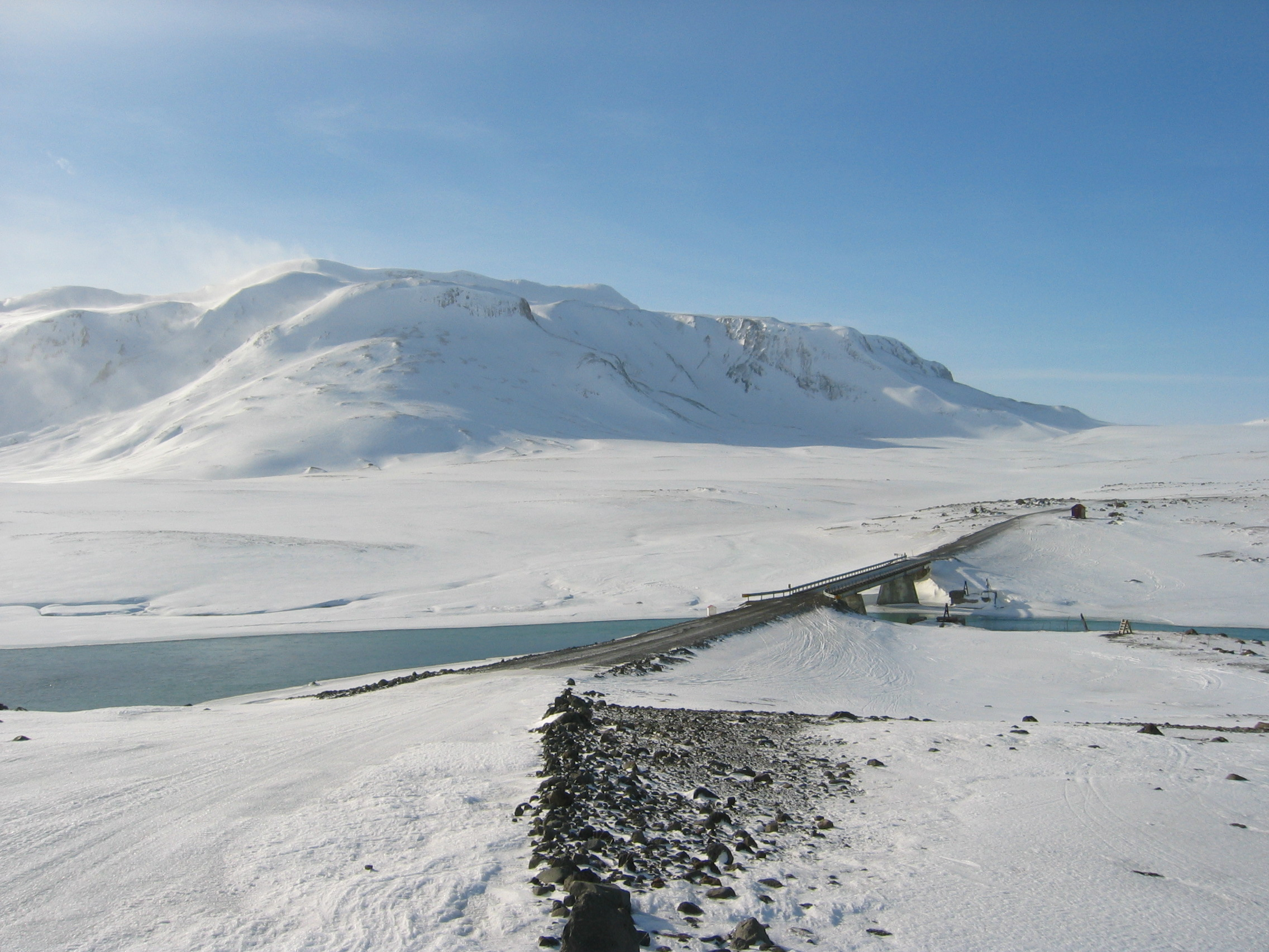 Approaching the end of the crossing, with the first bridge over the river Hvitá, and the mountain Bláfell behind